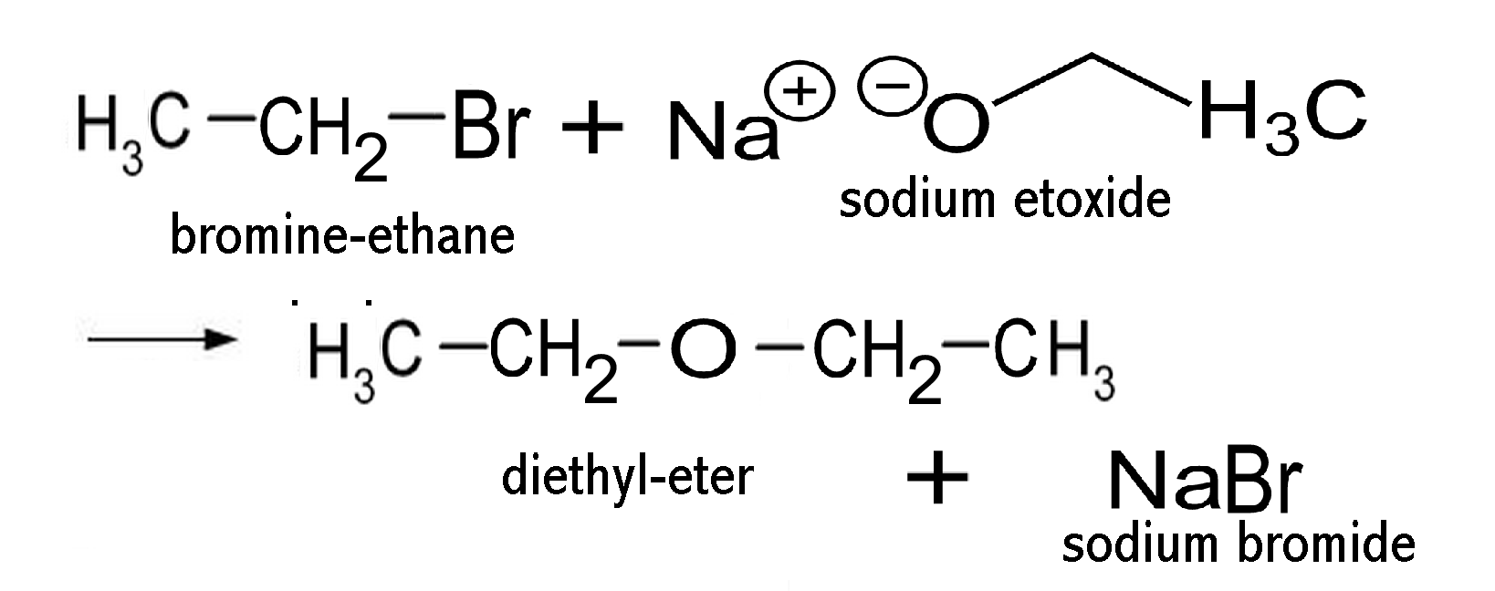 Reaction between sodium ethoxide and bromine-ethane